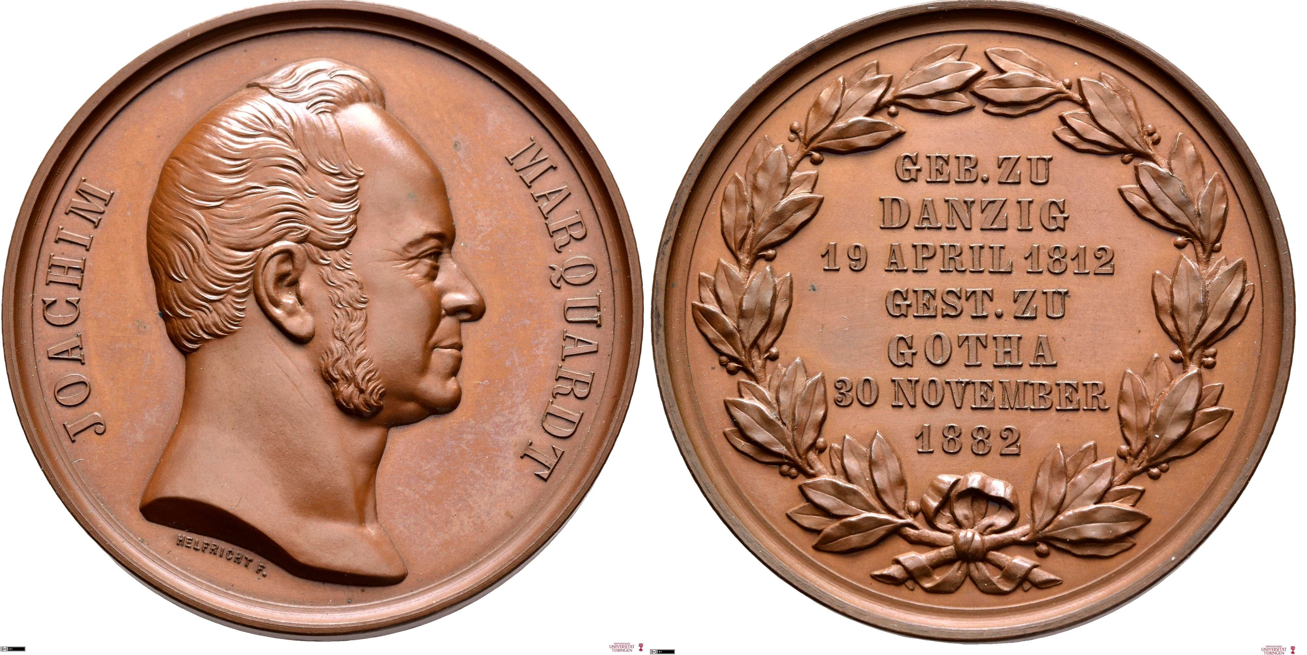 The front side depicts Marquardt surrounded by his name. The engraver Ferdinand Helfricht signed below the neck. The back side lists his place and date of birth and death in German placed inside a laurel wreath.